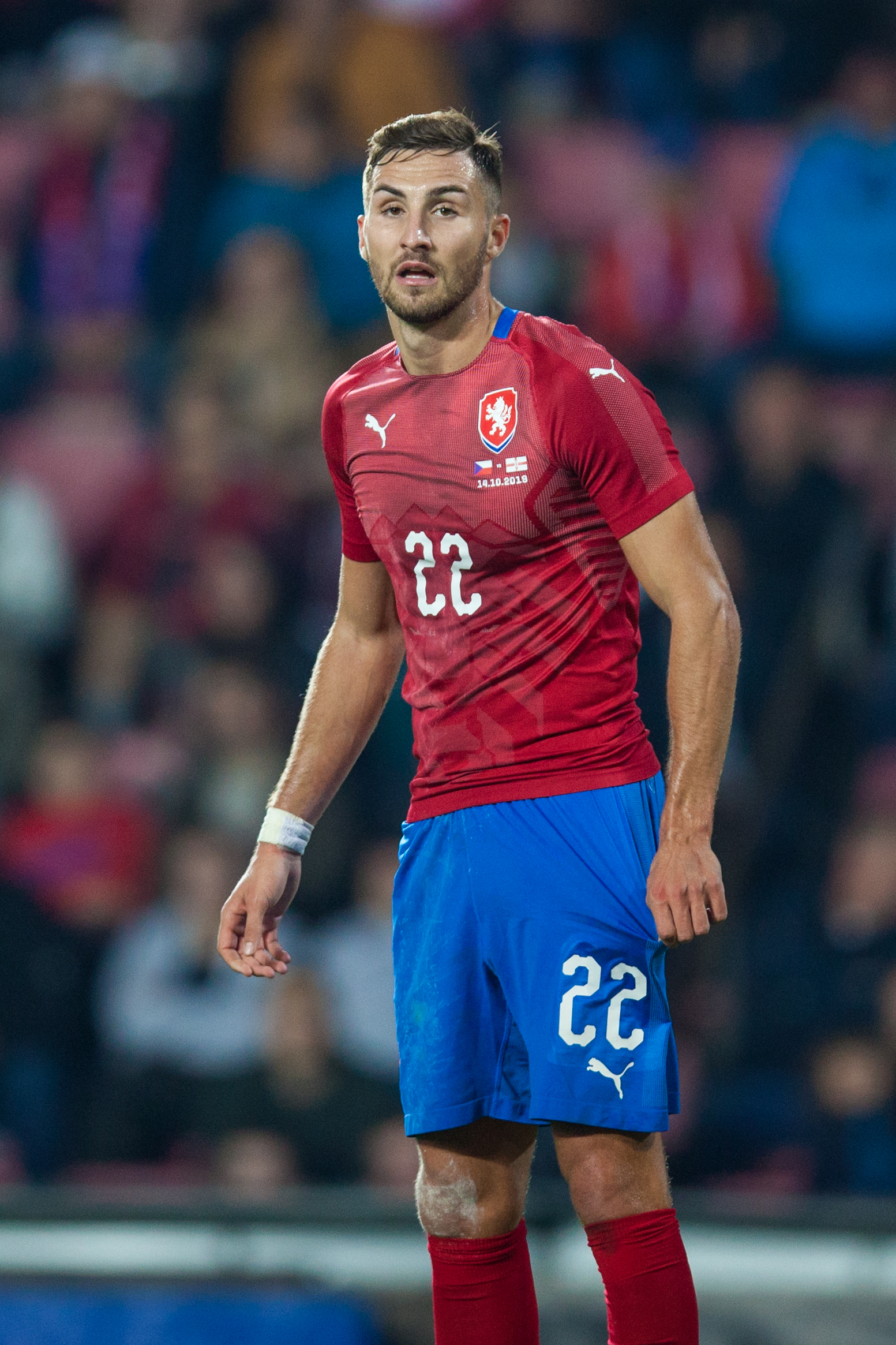 Stefan Simič in an international friendly match between Czech Republic and Northern Ireland (2:3), Stadion Letná (Prague) 2019-10-14 The making of this work was supported by Wikimedia Austria. For other files made with the support of Wikimedia Austria, please see the category Supported by Wikimedia Österreich. Personality rights warningAlthough this work is freely licensed or in the public domain, the person(s) shown may have rights that legally restrict certain re-uses unless those depicted consent to such uses. In these cases, a model release or other evidence of consent could protect you from infringement claims.